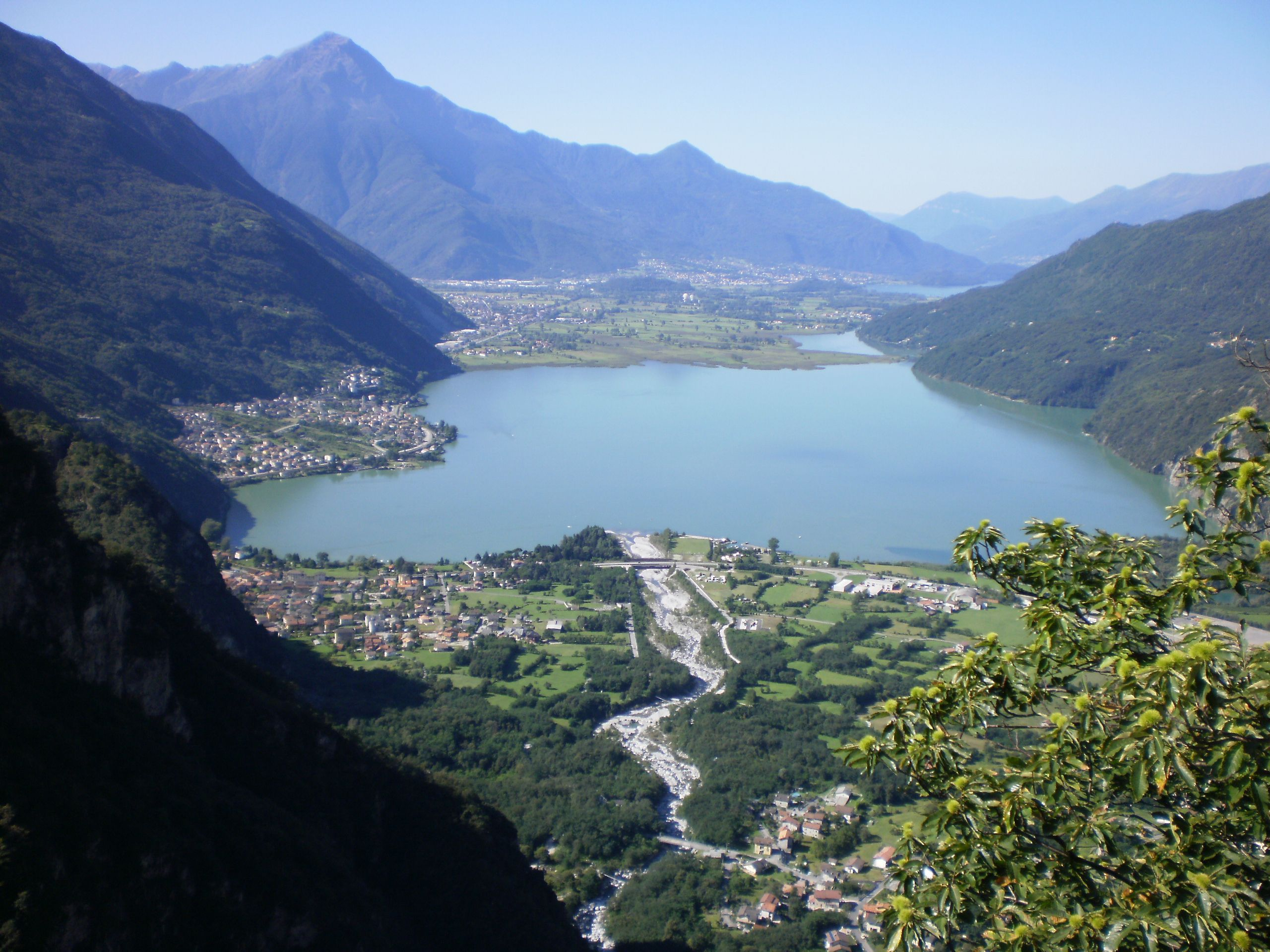 Lake Mezzola seen from Val Codera